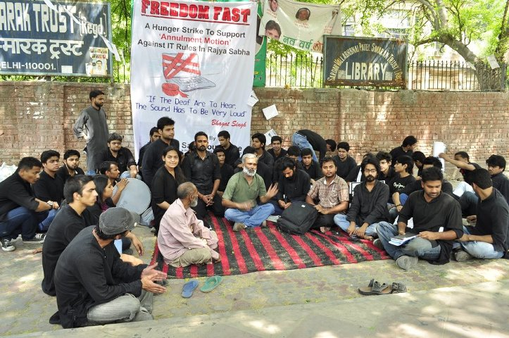 A hunger strike against internet censorship by Aseem Trivedi and Alok Dixit from Save Your Voice at Jantar Mantar, New Delhi.